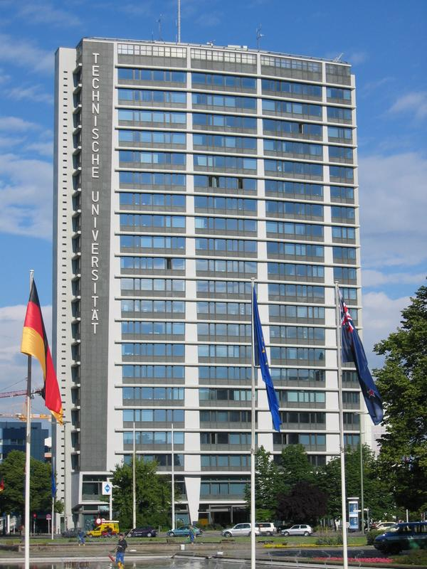 Building of the Technische Universität, Institute for modern languages